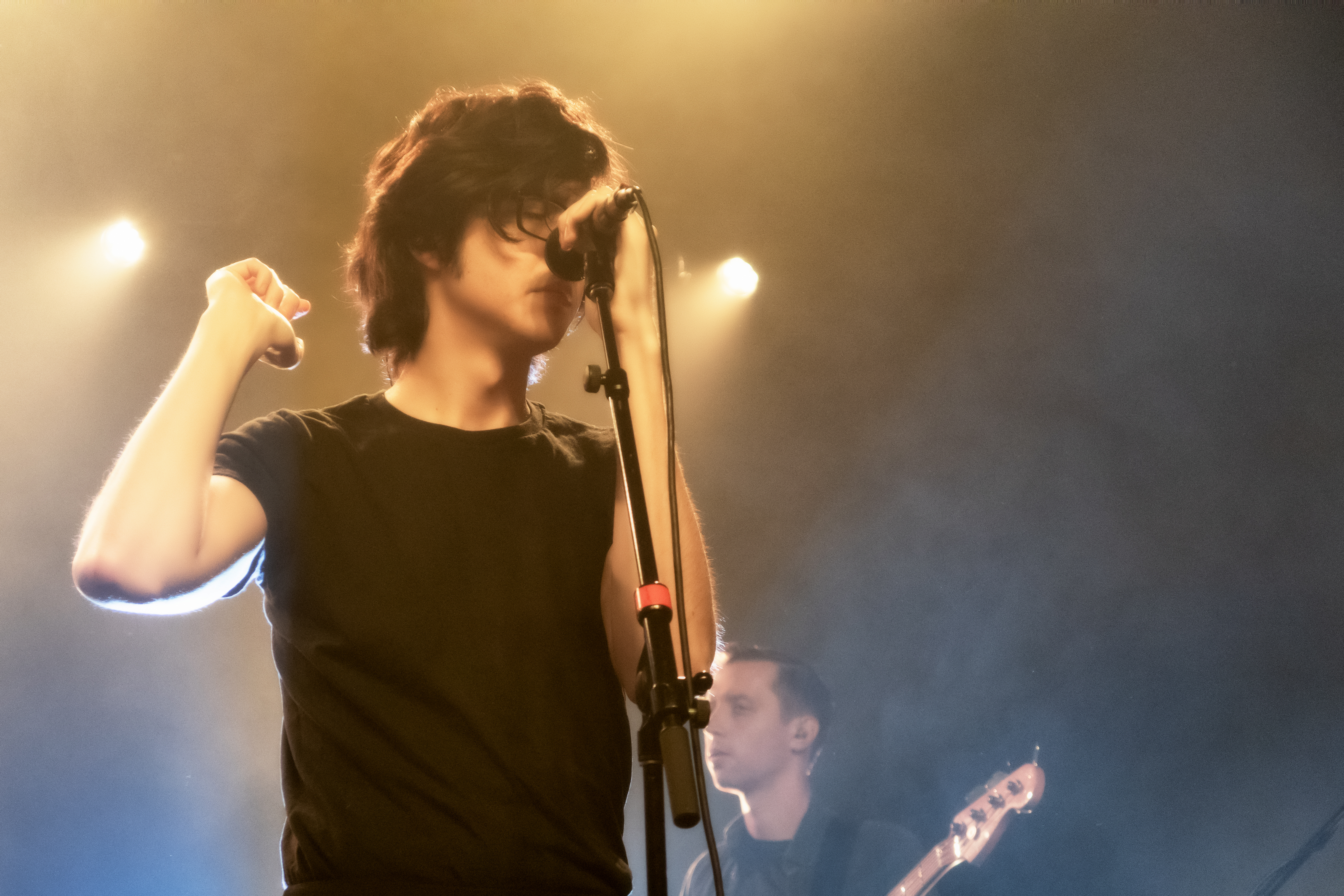 An image of the band Car Seat Headrest performing a live show at a venue called "The Showbox", with frontman Will Toledo prominently visible, and bassist Seth Dalby visible in the background.